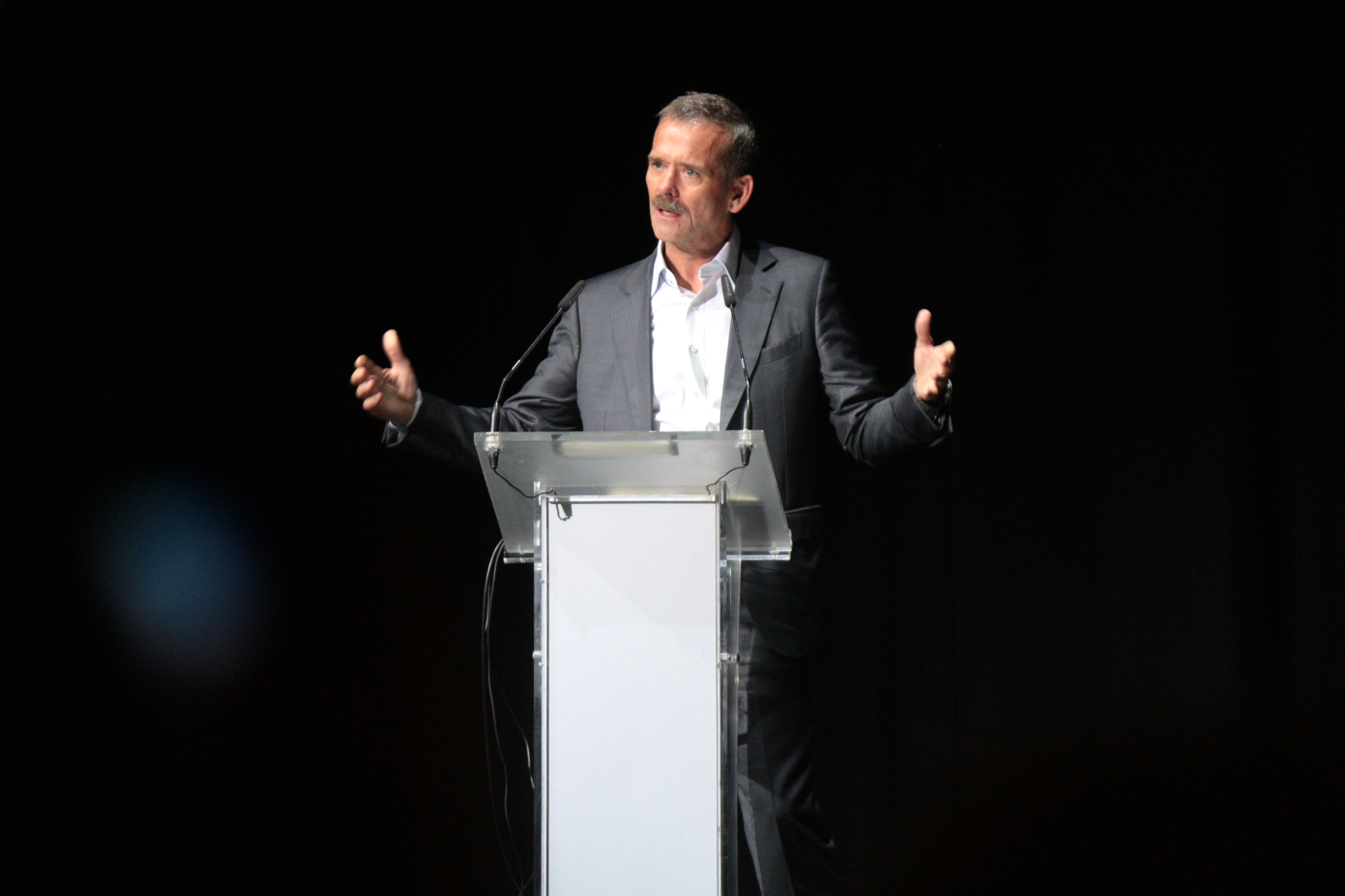 Starmus 2016. Tenerife, Canary Islands.